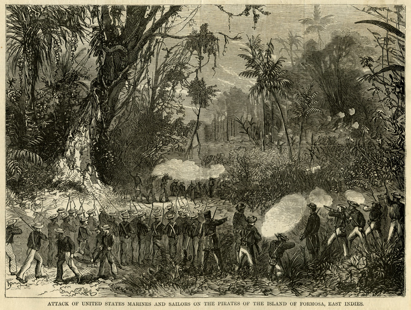 "Attack of United States Marines and sailors on the pirates of the island of Formosa, East Indies." Harper's Weekly (7 September 1867): 572. Text with image: "The Formosa pirates. In order to avenge the murder of a number of shipwrecked seamen of the bark Rover by the savage Malays of Formosa, Admiral Bell, on June 13, made a descent on that island with a force of 181 men and officers. They advanced a mile into the interior, encountering a few savages, who continually ambushed them in true Indian fashion. After penetrating a mile into the jungle, losing Lieutenant-Commander Mackenzie killed and a dozen or fifteen men prostrated by sun-stroke, killing none of the savages, and failing to destroy their huts, the troops returned on shipboard and abandoned the expedition. Rear-Admiral Bell concludes his report with the recommendation that the Chinese authorities be required to occupy the island with a settlement of their own; and this is to be effected, he says, through our Minister at Pekin."